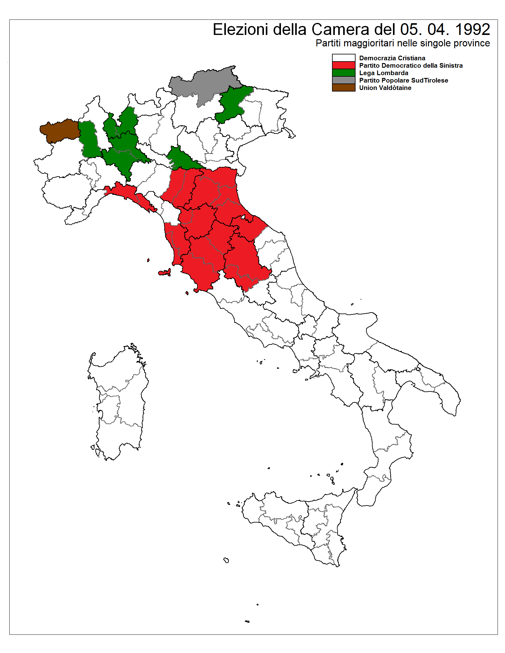 Party plurality in each province, 1992 election